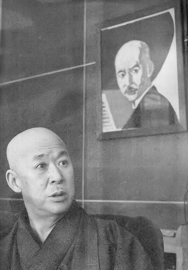 Kosaku Yamada